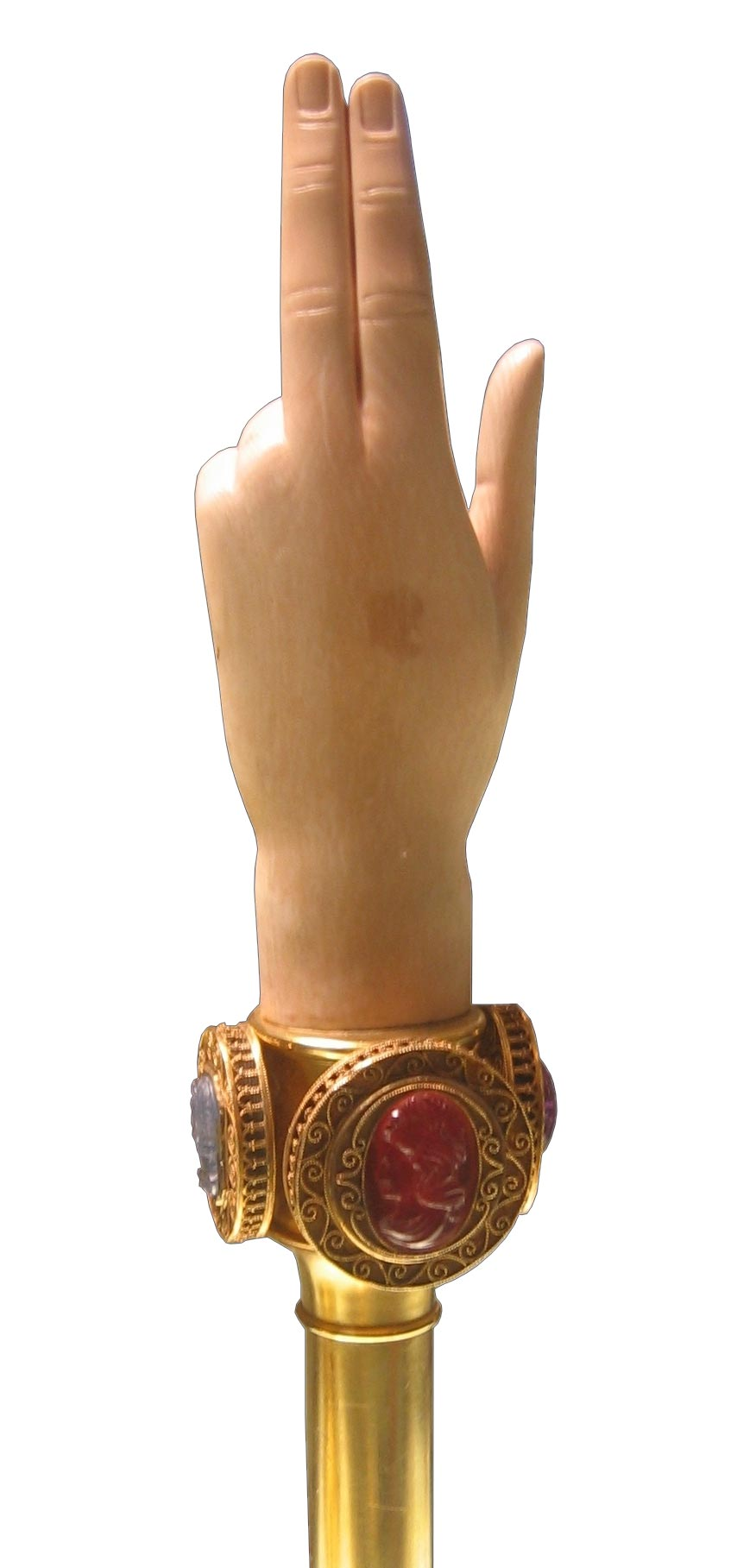 Hand of justice, made for the crowning of Napoléon I, including the so-called ring of St. Denis from the Treasure of Saint-Denis. Ivory, copper, gold and cameos, 1804 . Actualy, the rose color of the hand have benn removed and it appears in white ivory natural color.